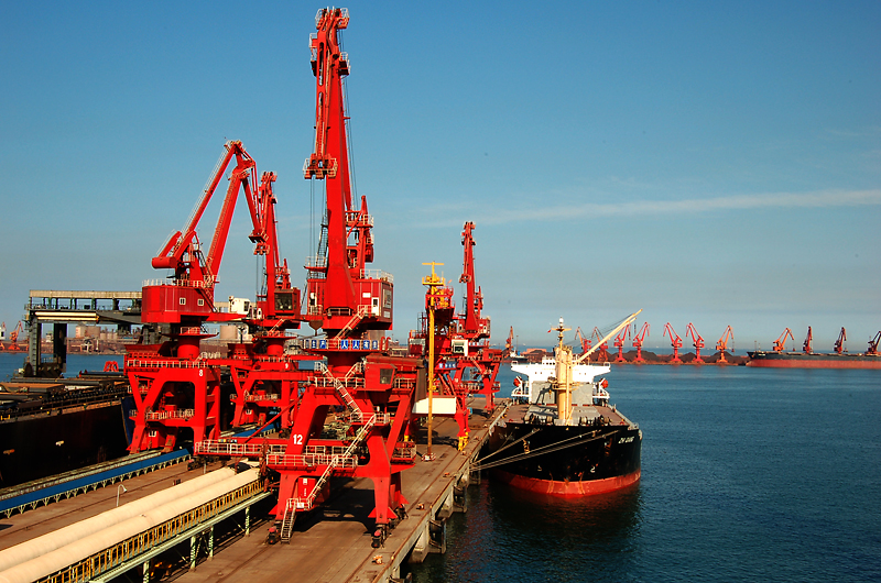 Lies in east of HUang hai east road,Put into production in 1986.It is the nine largest harbour in china